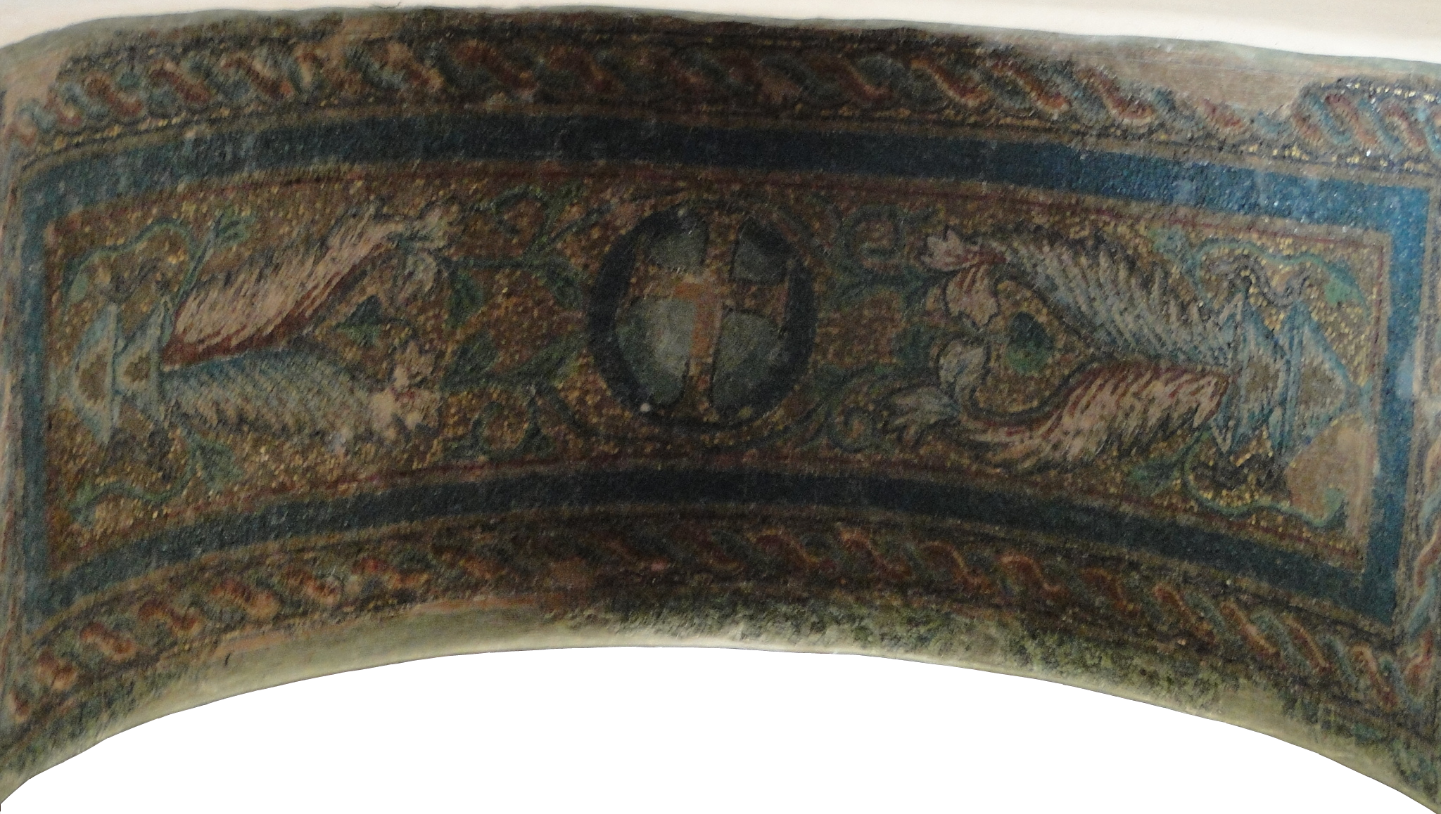 Mosaic-arch from the church of the Acheropoietos.